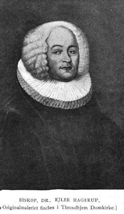 Painting of Bishop Ejler Hagerup (1685-1743) (The original painting is now located in the Trondheim Cathedral, Norway [Bispegalleriet, Nidaros domkirke, Trondheim]). The picture is probably painted by Johan Nicolai Schavenius in 1740.